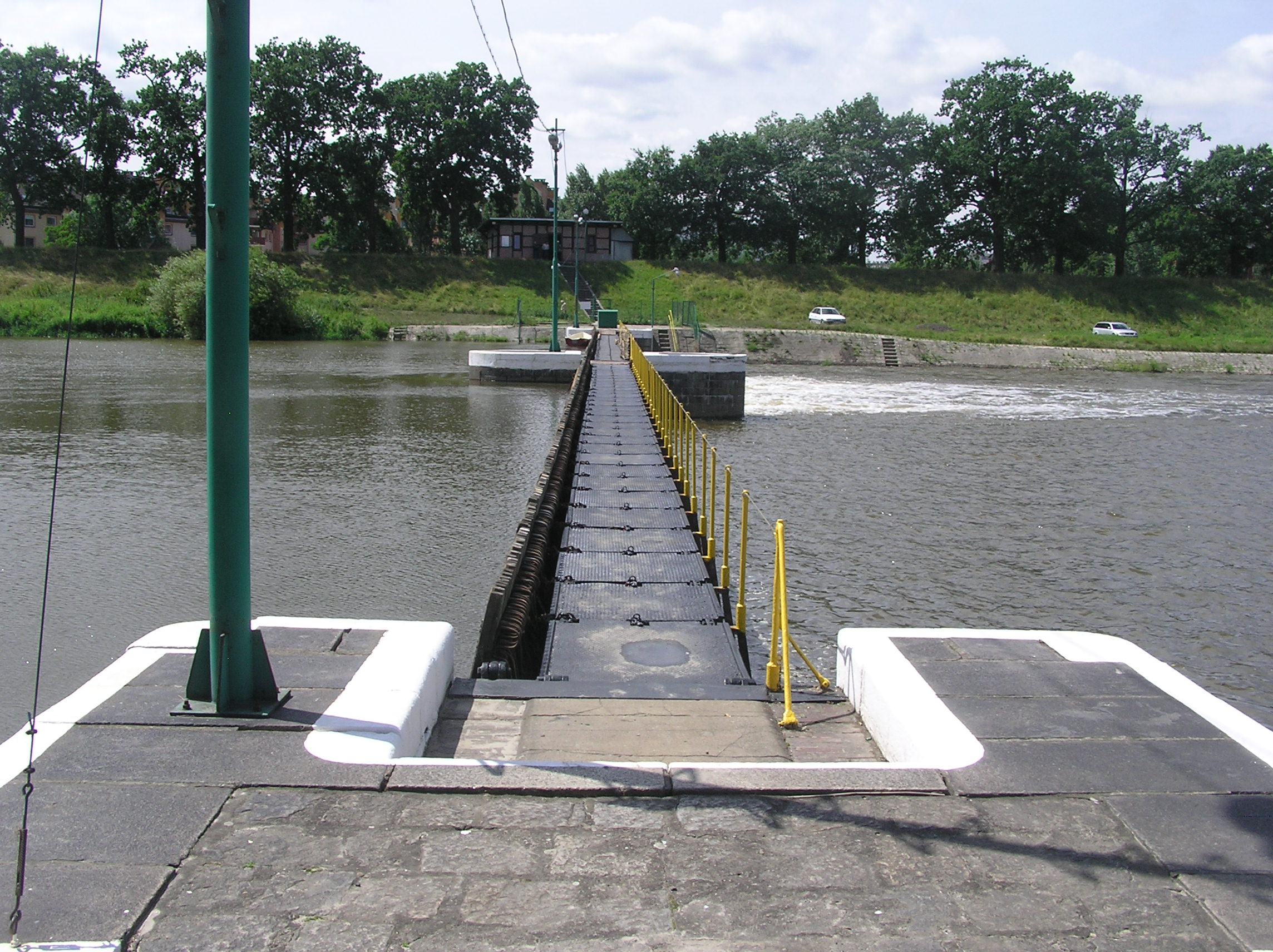 Wrocław, Psie Pole Weir